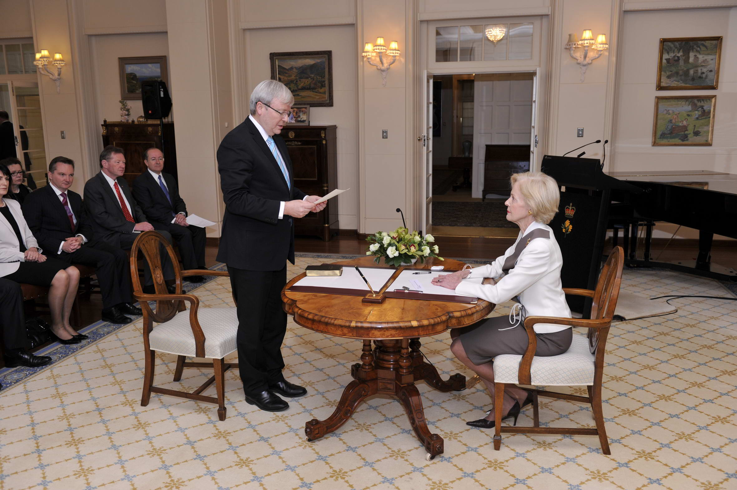 The Governor-General of Australia Quentin Bryce issues the Instrument of Appointment and Oath of Office to the newly appointed Prime Minister, the Honourable Kevin Rudd MP.